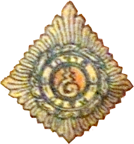 Badge of Thai Junior Soldier, Taken from File:Colours of Thai Provicial Junior Soldier.jpg